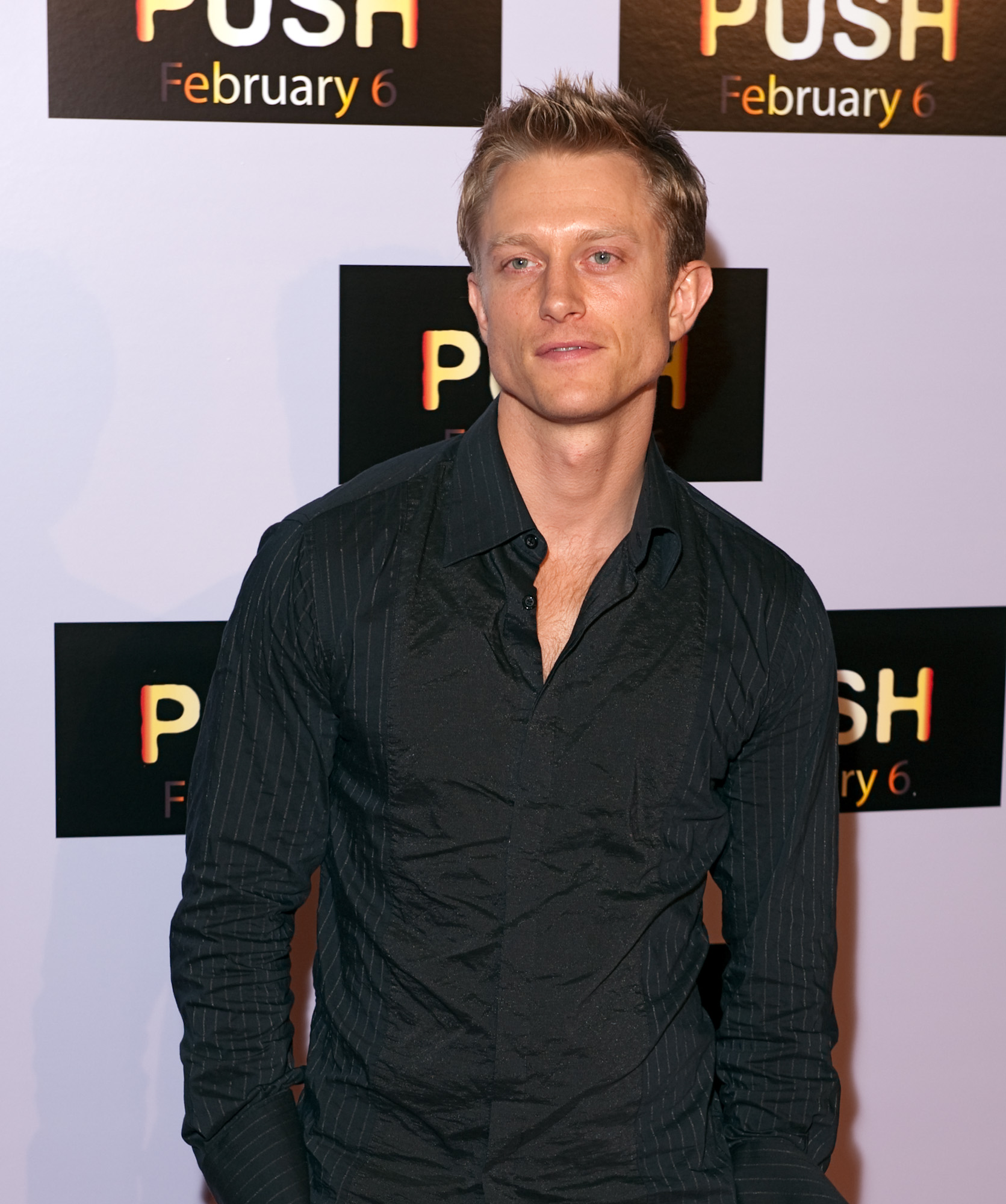 English actor Neil Jackson arrives at the premiere of Push, Mann Theater, Westwood.